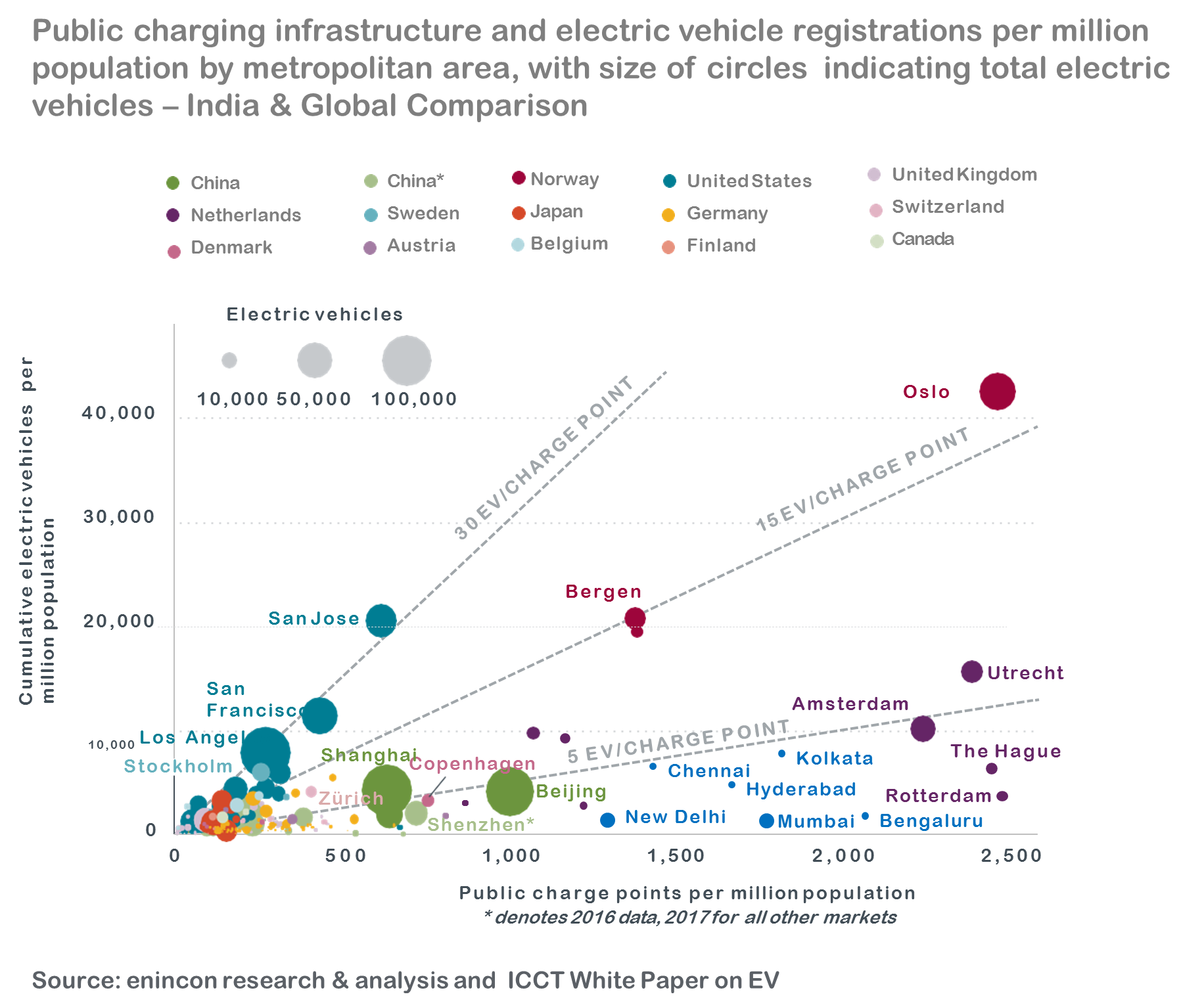 Cumulative Electric Vehicles Per Million Population